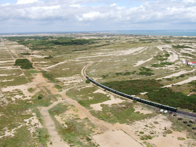 Steam train leaving Dungeness station